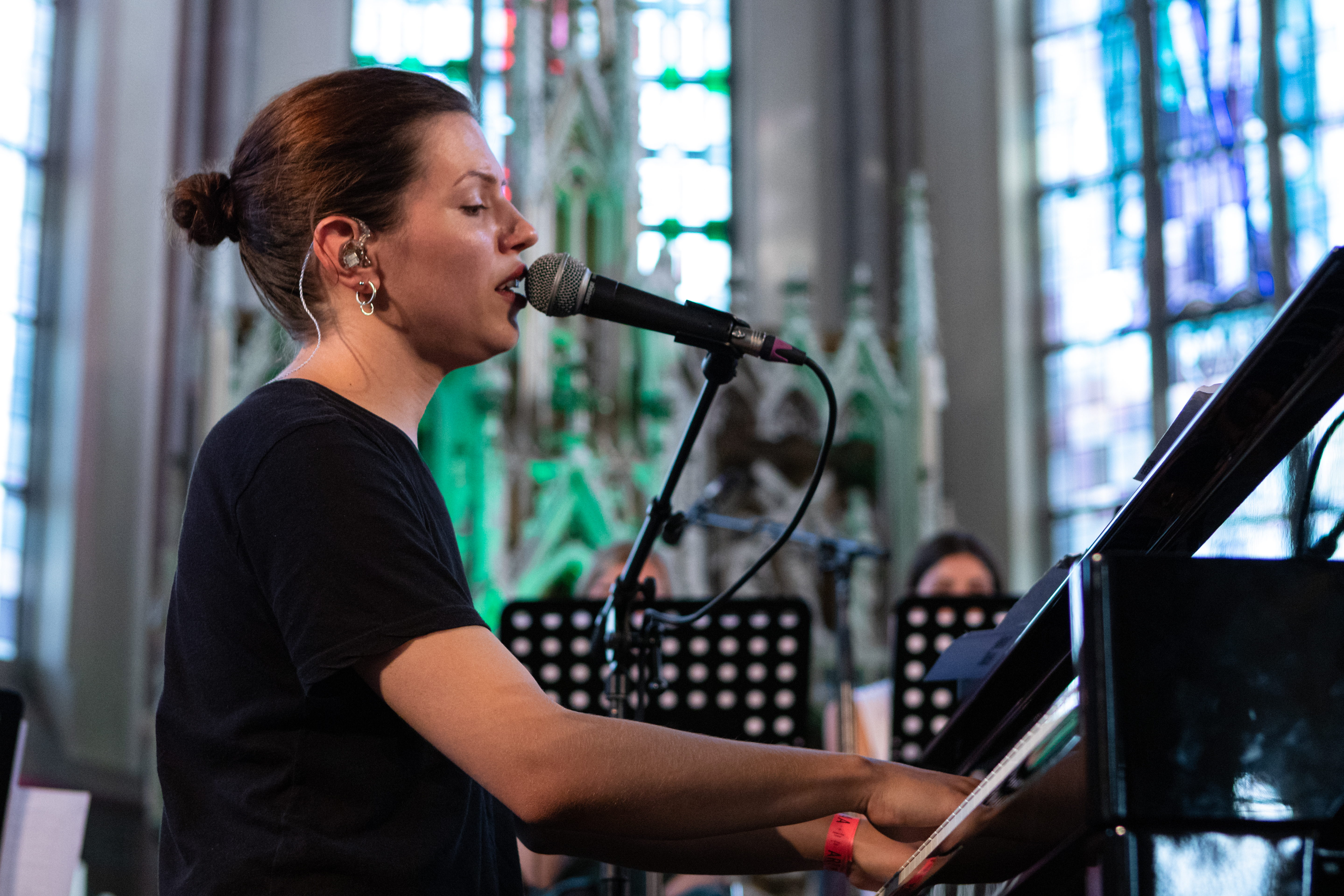 Soap&Skin & Stargaze in the St Georg Church at Haldern Pop Festival 2019.